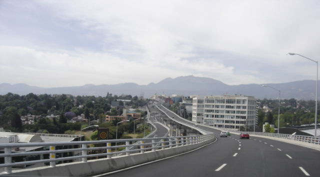 Cropped image from Image:Mexico2dopiso.png; segundo piso del Anillo Periferico de la Ciudad de Mexico / second level of the Mexico City beltway.